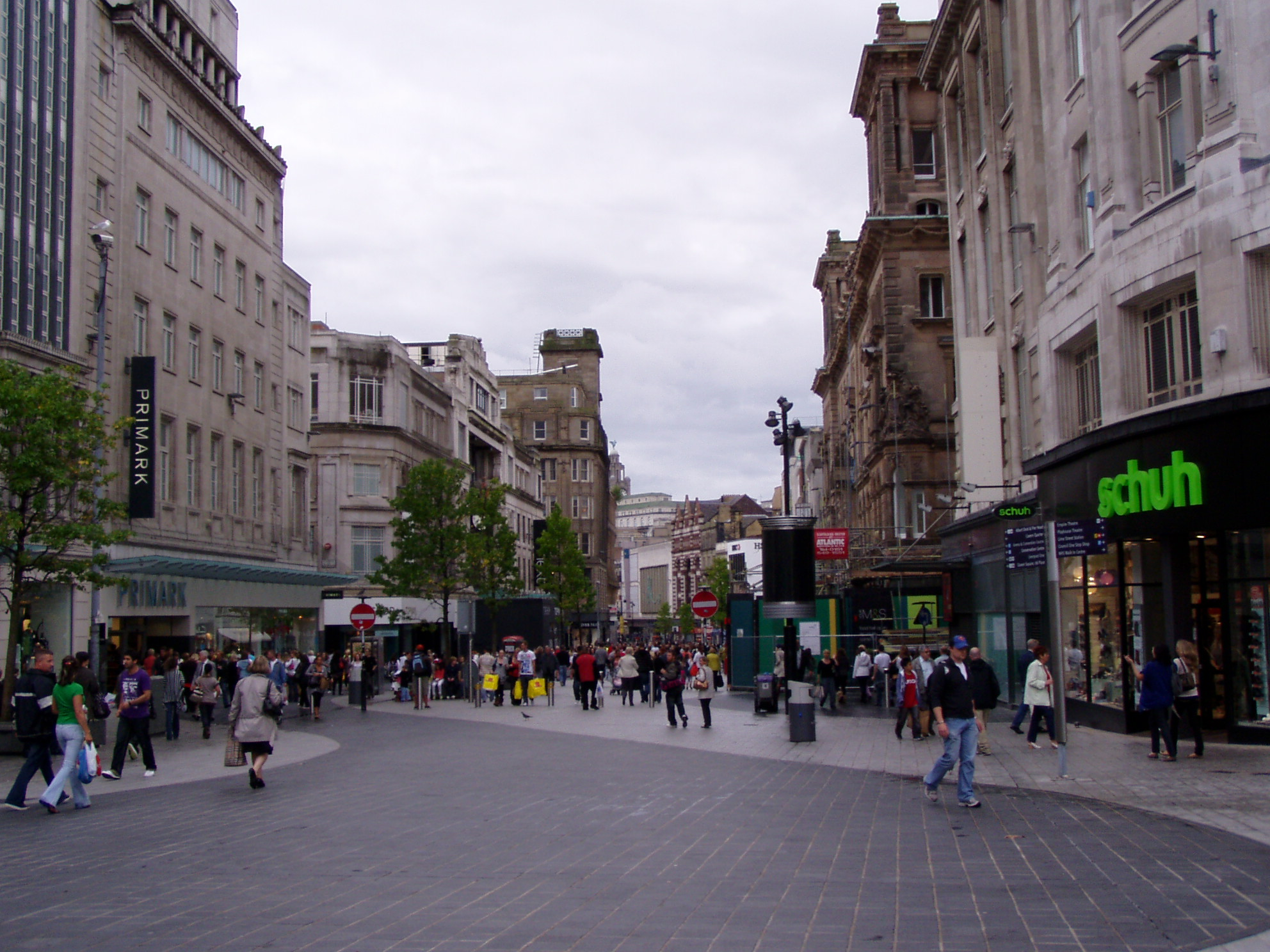 Church Street, Liverpool